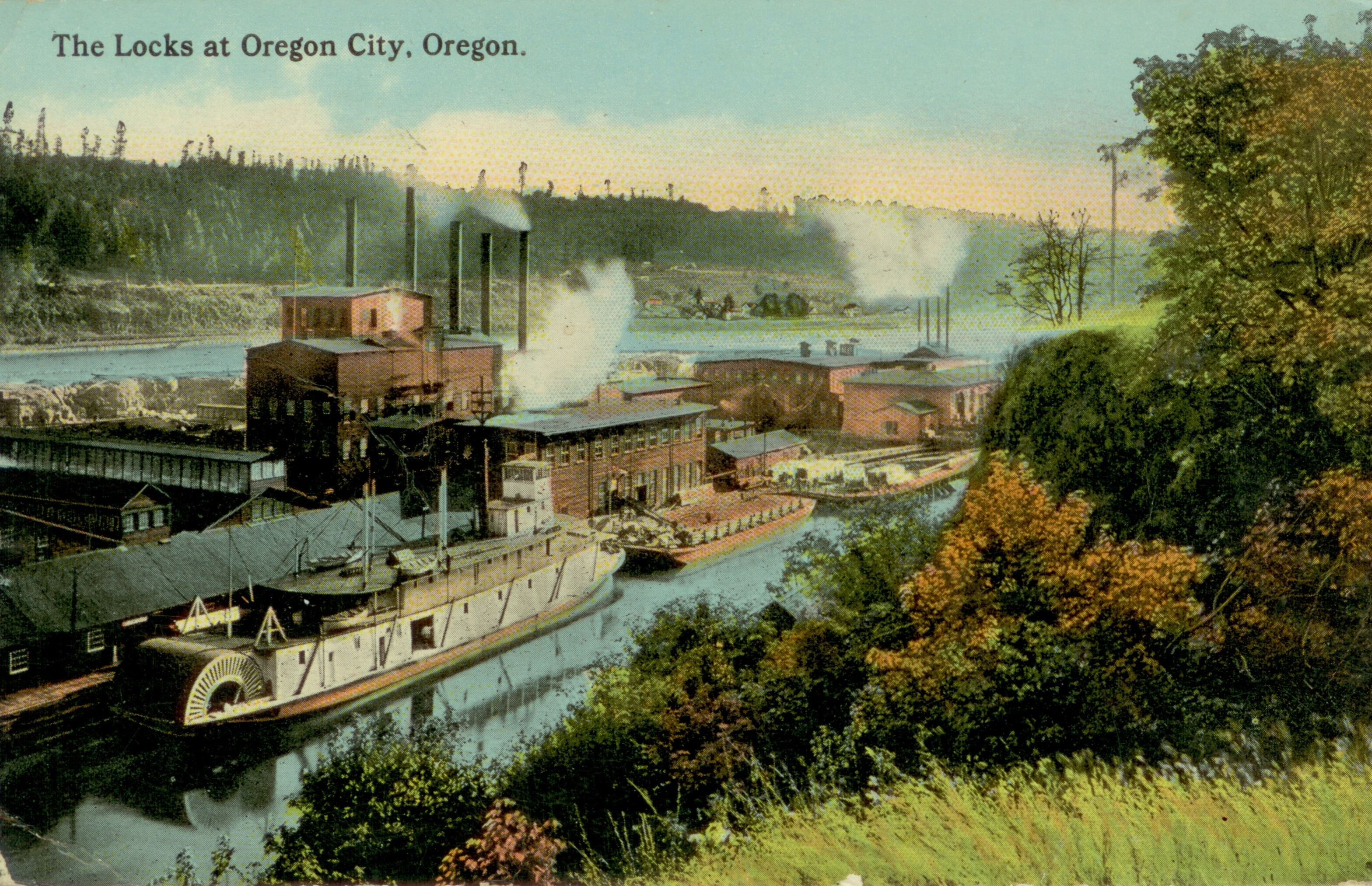 The Willamette Falls Locks at West Linn, Oregon, United States. This is a scan of a colorized photo postcard, which has been mailed. The postmark date is November 15, 1915.